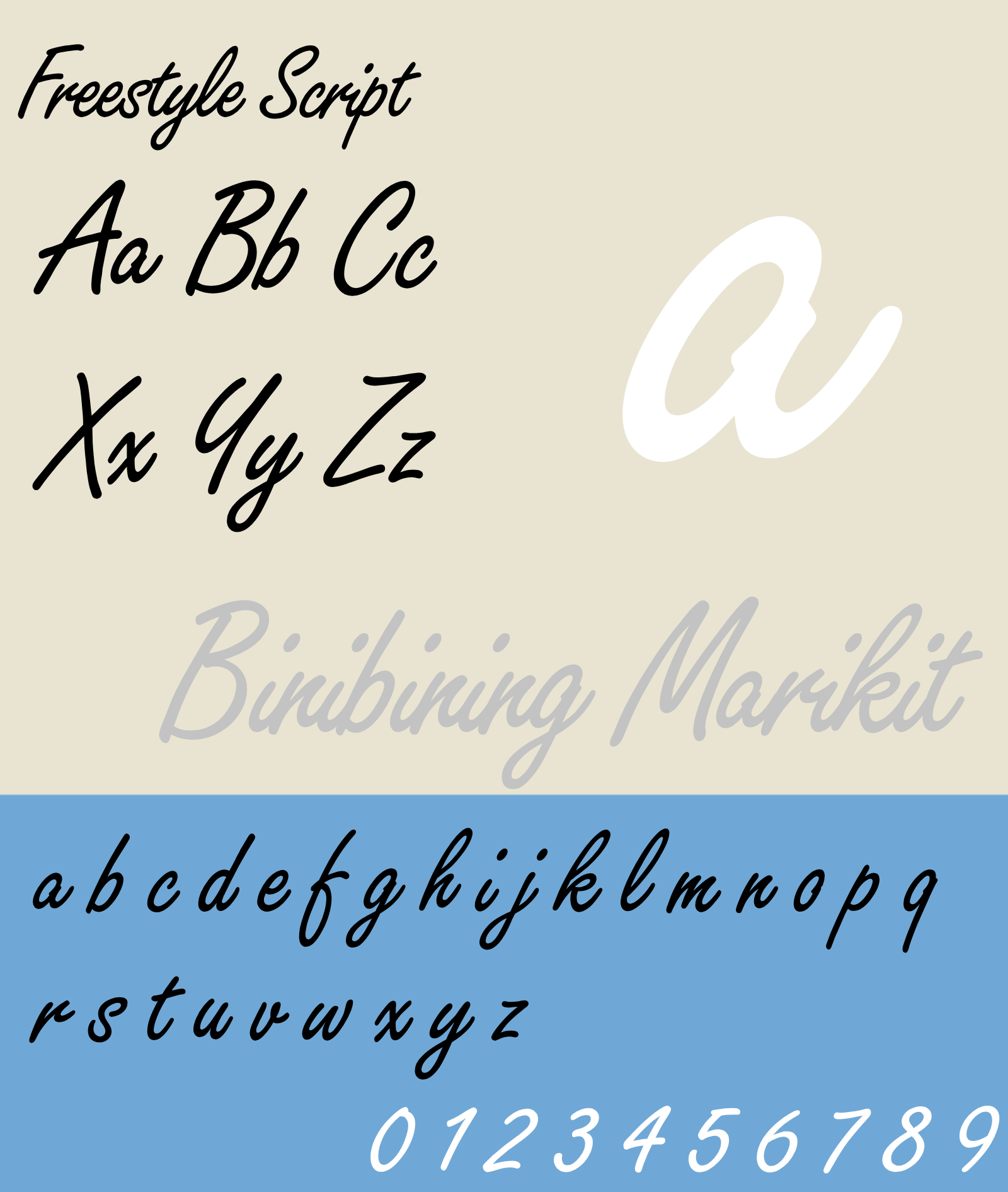 Specimen of Freestyle Script, designed by Martin Wait in 1981. The version has the cursive style.